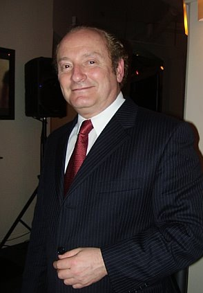 Robert C Merton, 2006 at a Ladies in Red Event